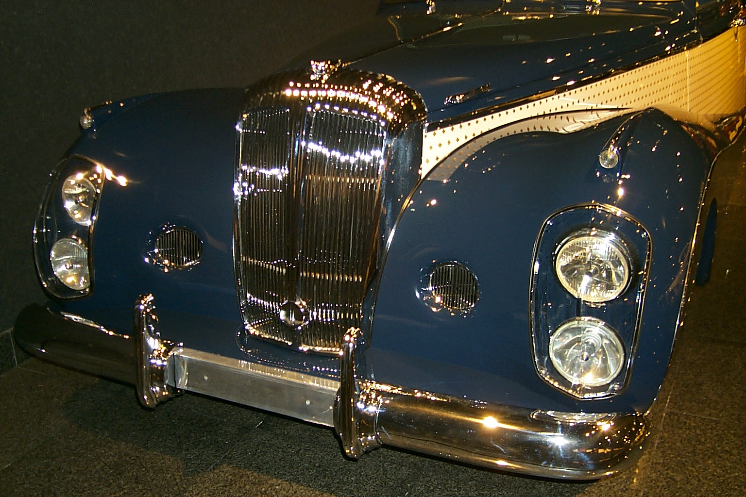 1953 Daimler DE 36 This photo was taken on July 22, 2000 in Blackhawk, California, US, using a Kodak DC265 Zoom.